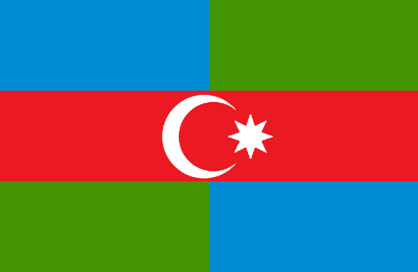 The flag of The South Azerbaijan. Approved by South Azerbaijan National Liberation Movement on 1992.